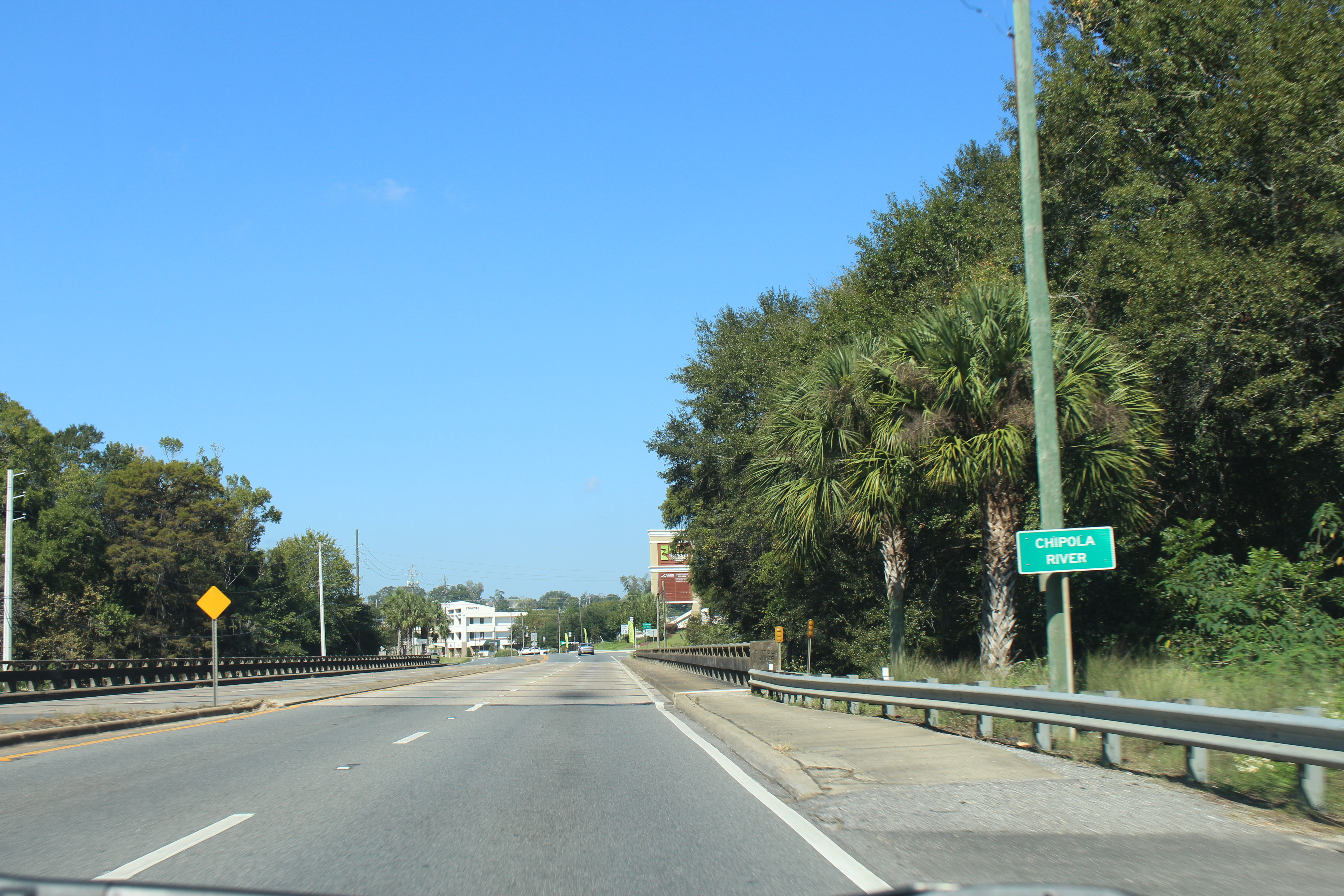 US90wb, Chipola River, Jackson County, Florida.